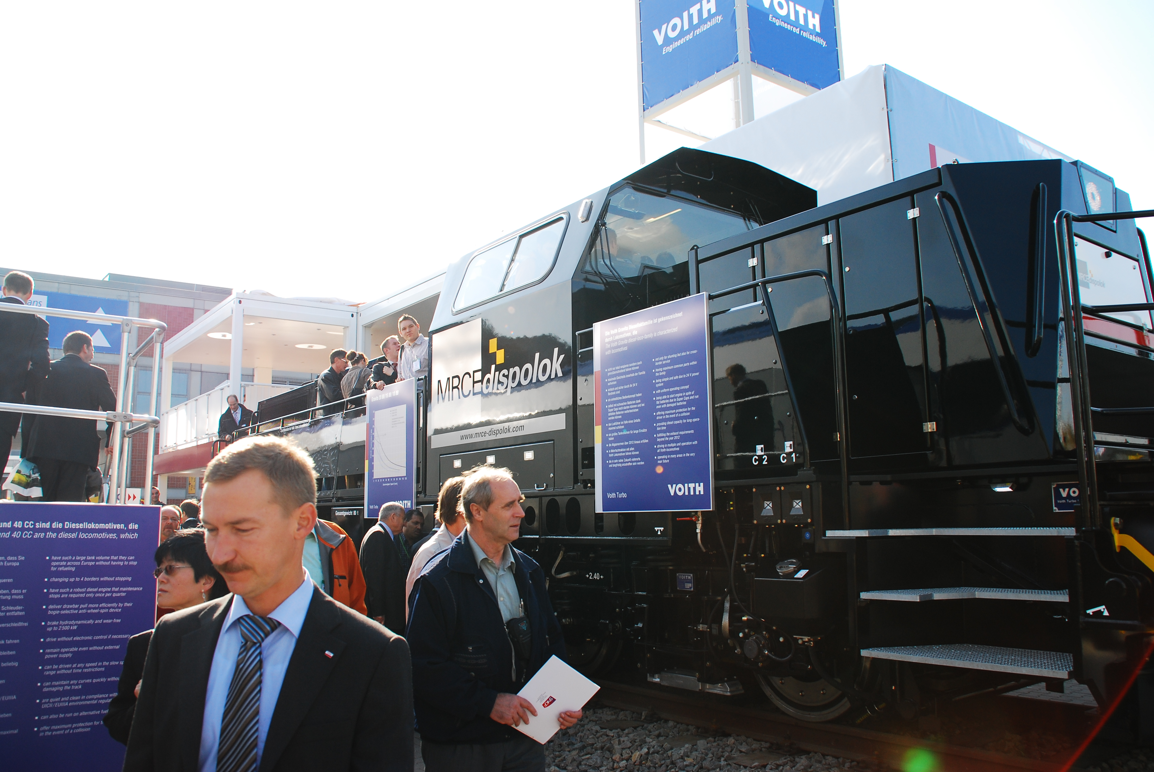 Voith Gravita diesel shunter at innotrans 2008 berlin